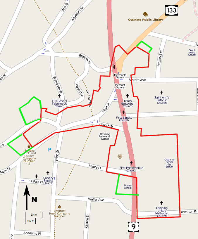 Map showing current boundaries of the Downtown Ossining Historic District, and proposed additions This map may be incomplete, and may contain errors. Don't rely solely on it for navigation.